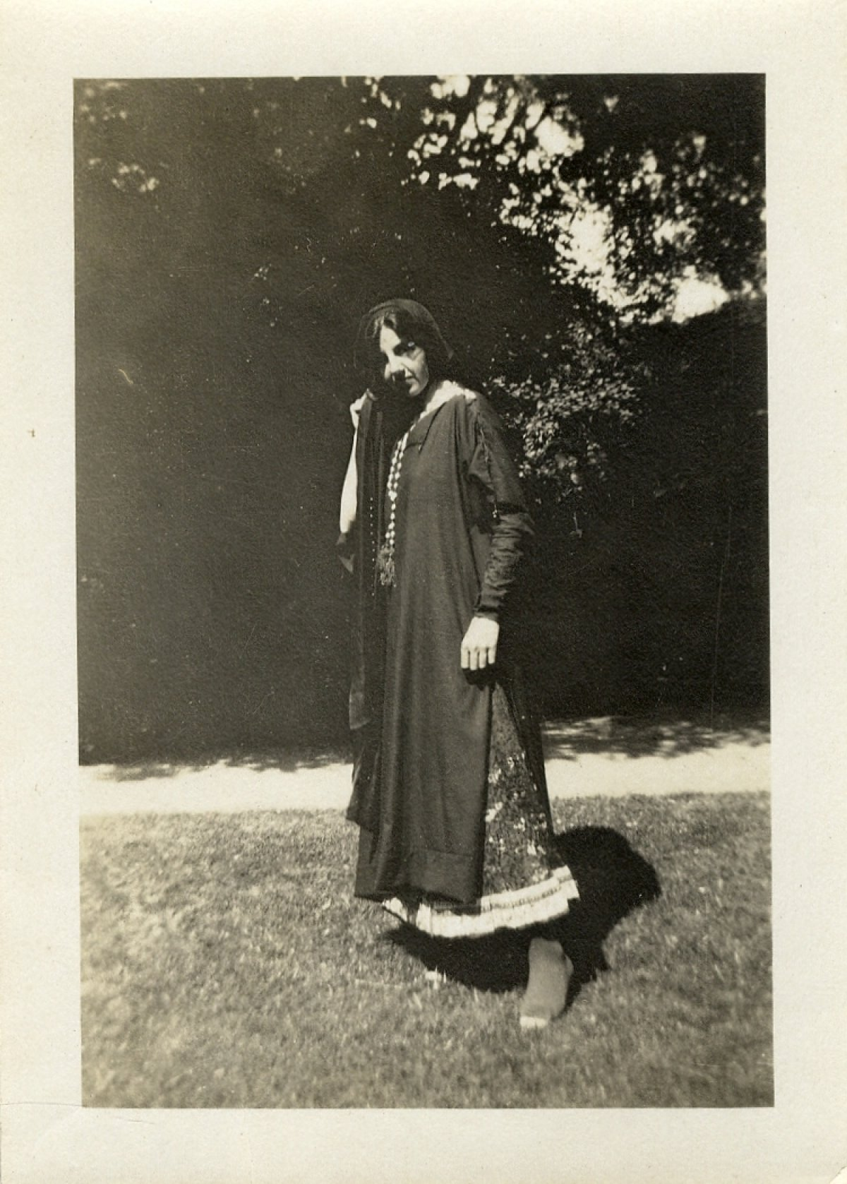 Ethel Pye as Lechery in Doctor Faustus, At King’s (1906-1909)